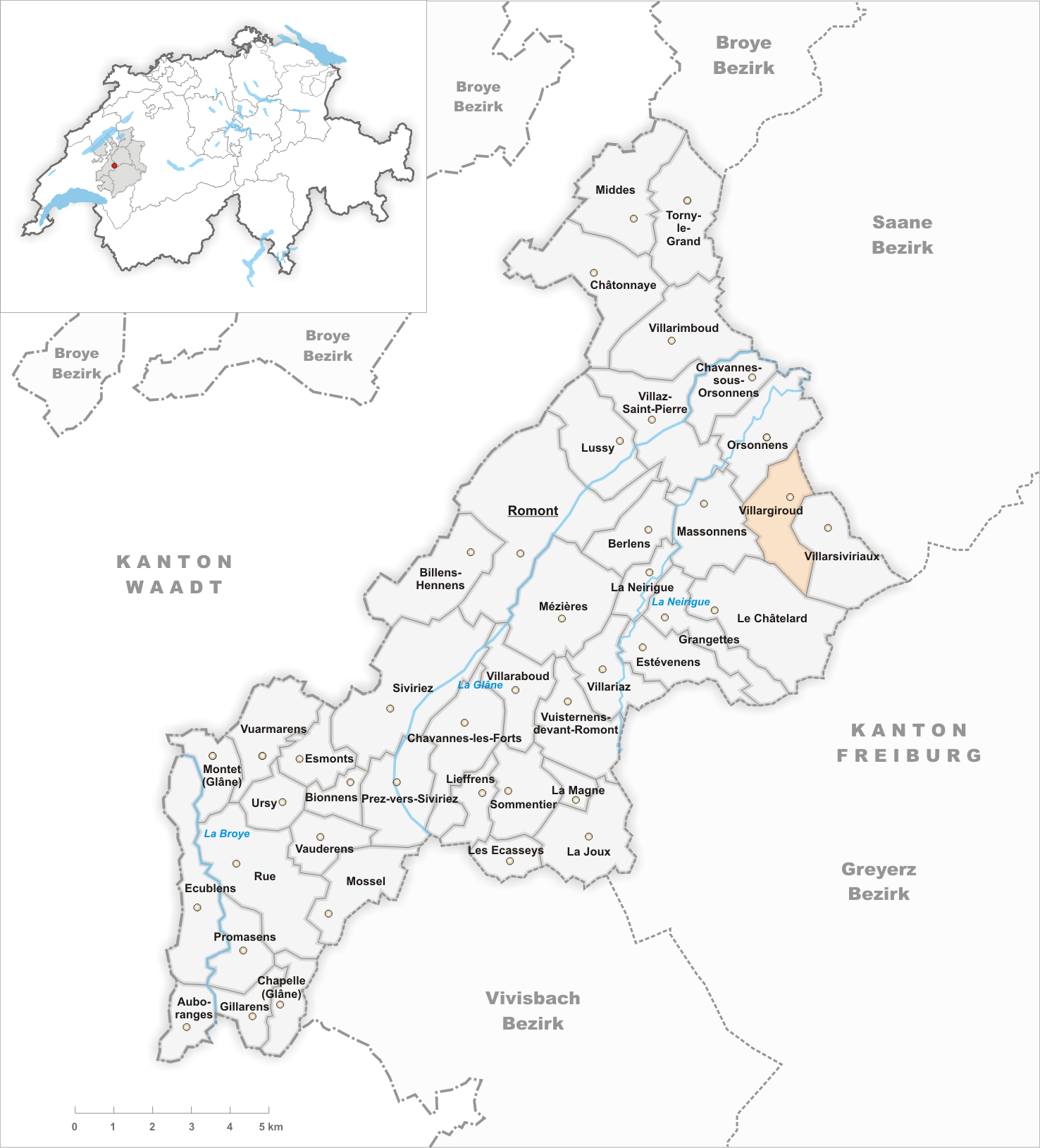 Municipality Villargiroud Artist: Tschubby